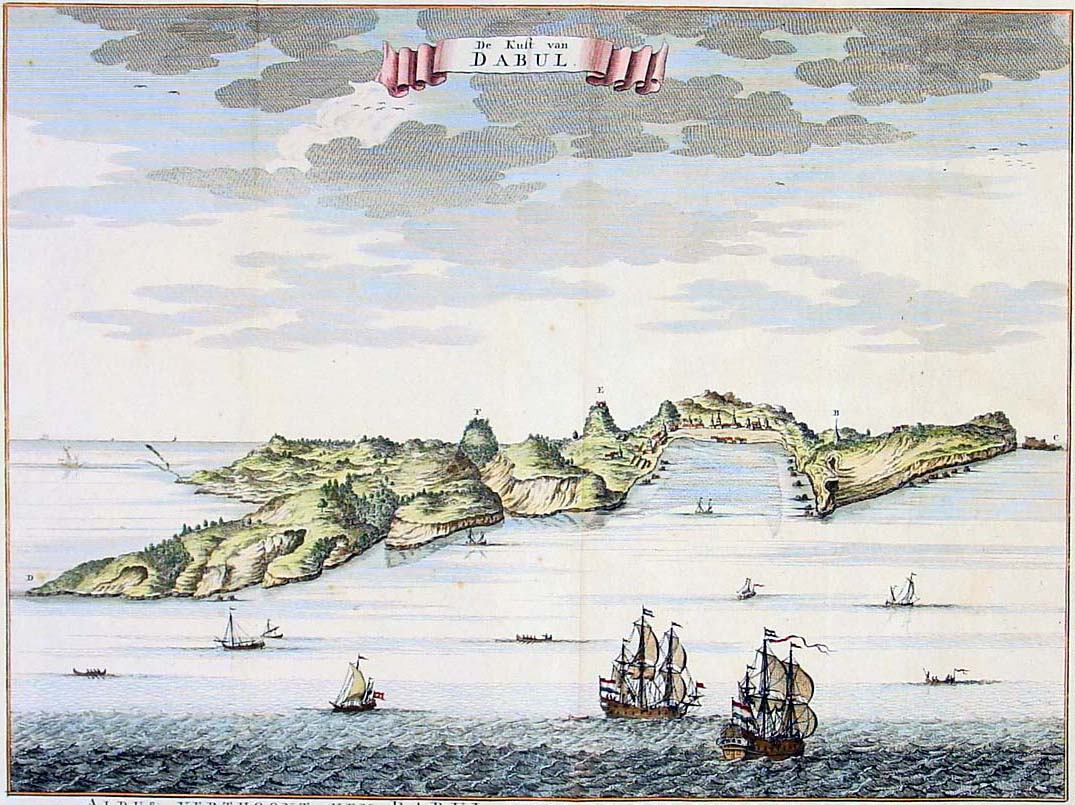 A view of Dabul from "De Zee En Land-Caarten en Gizigeten van steeden en landvertooningen van oost-indien," published by the Van Keulen family, 1752, with modern hand coloring (reprinted from 'Oud en nieuw Oost-Indien' by Francois Valentijn, 1724); *Prevost's version* Source: ebay, Oct. 2005